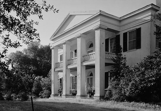 Monmouth House, East Franklin Street & Melrose Avenue, Natchez (Adams County, Mississippi) (cropped). Image courtesy of Historic American Buildings Survey—HABS.